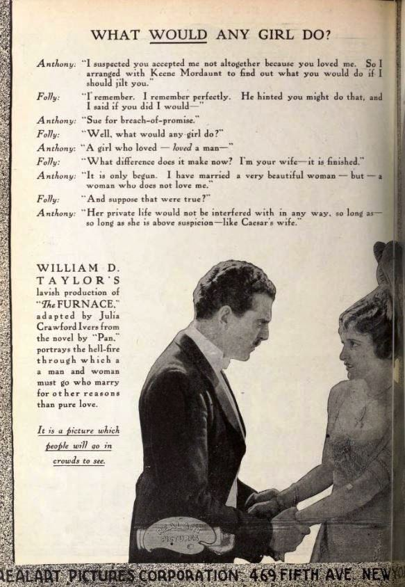 Advertisement for the American film The Furnace (1920) with Jerome Patrick and Agnes Ayres, on page 4 of the November 13, 1920 Exhibitors Herald.